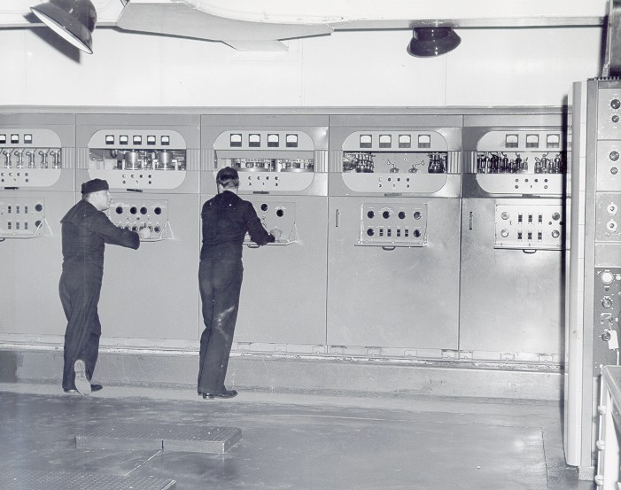 One of the 35 kilowatt high frequency transmitters in the transmitting room aboard the Coast Guard-manned COURIER, State Department-sponsored 'Voice of America' ship.